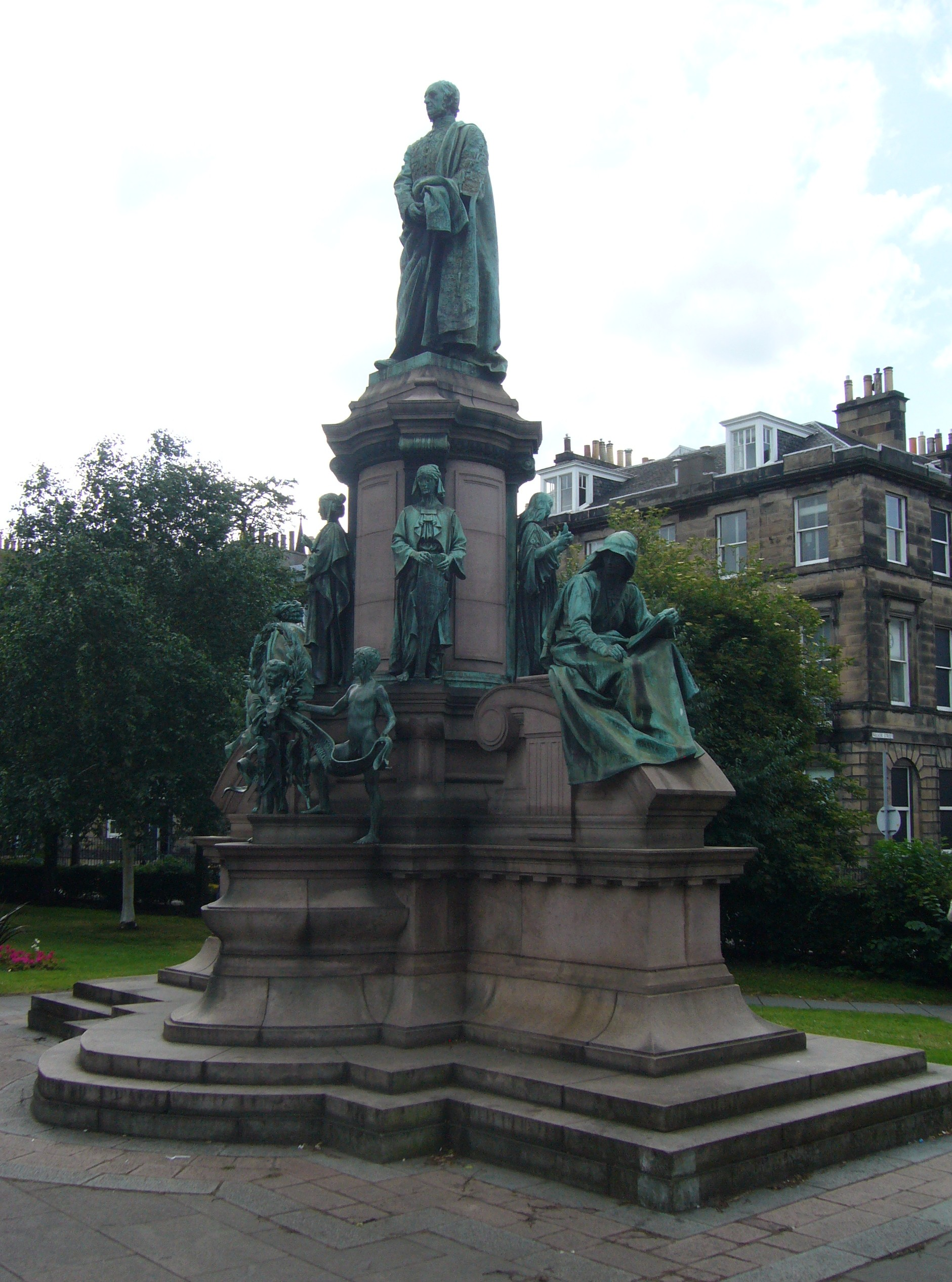 William Gladstone Monument by James Pittendrigh MacGillivray, Coates Crescent, Edinburgh